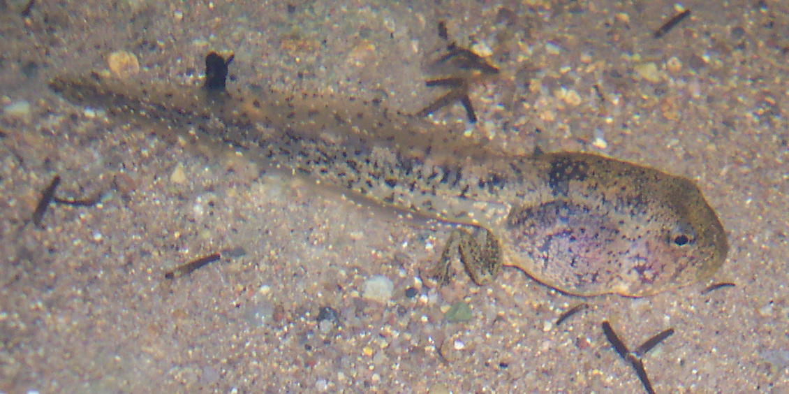 A Mixophyes iteratus (Giant Barred Frog) tadpole.